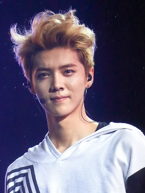 Luhan at the EXO The Lost Planet in Jakarta on September 6, 2014.